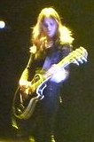 Siouxsie Medley of Dead Sara